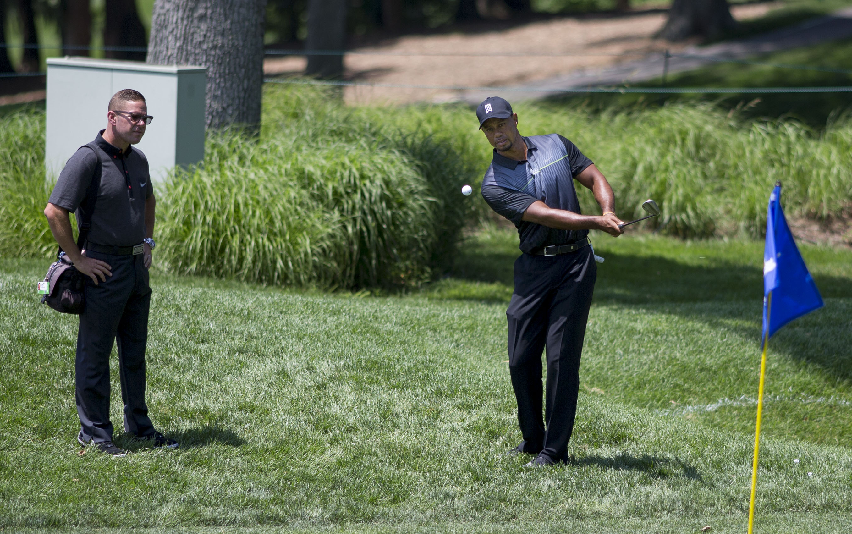 Tiger Woods practices before the Quicken Loans National golf tournament at Congressional Country Club on June 24, 2014 in Bethesda, Maryland.